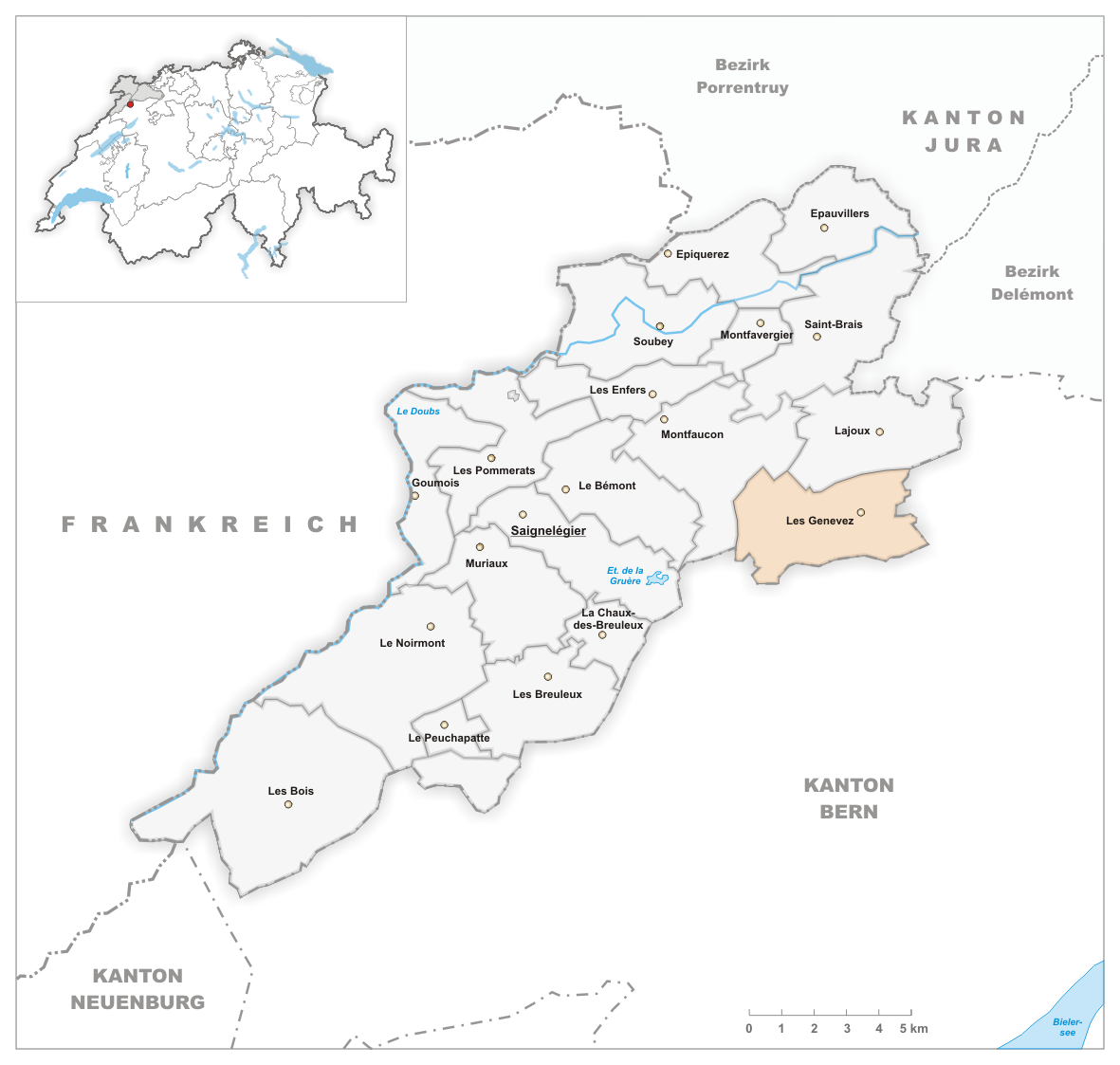 Municipality Les Genevez